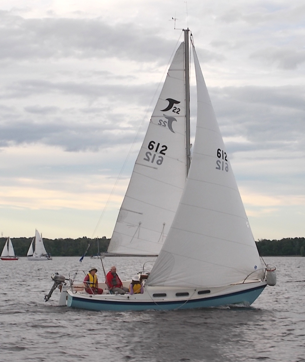 Tanzer 22 sailboat on Lac Deschênes, part of the Ottawa River, Ottawa, Ontario, Canada.